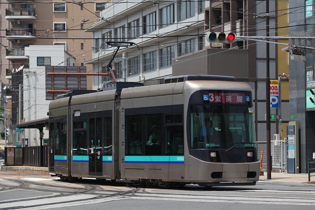 Nagasaki Electric Tramway's low floor tramway vehicle series 3000 since 2004.